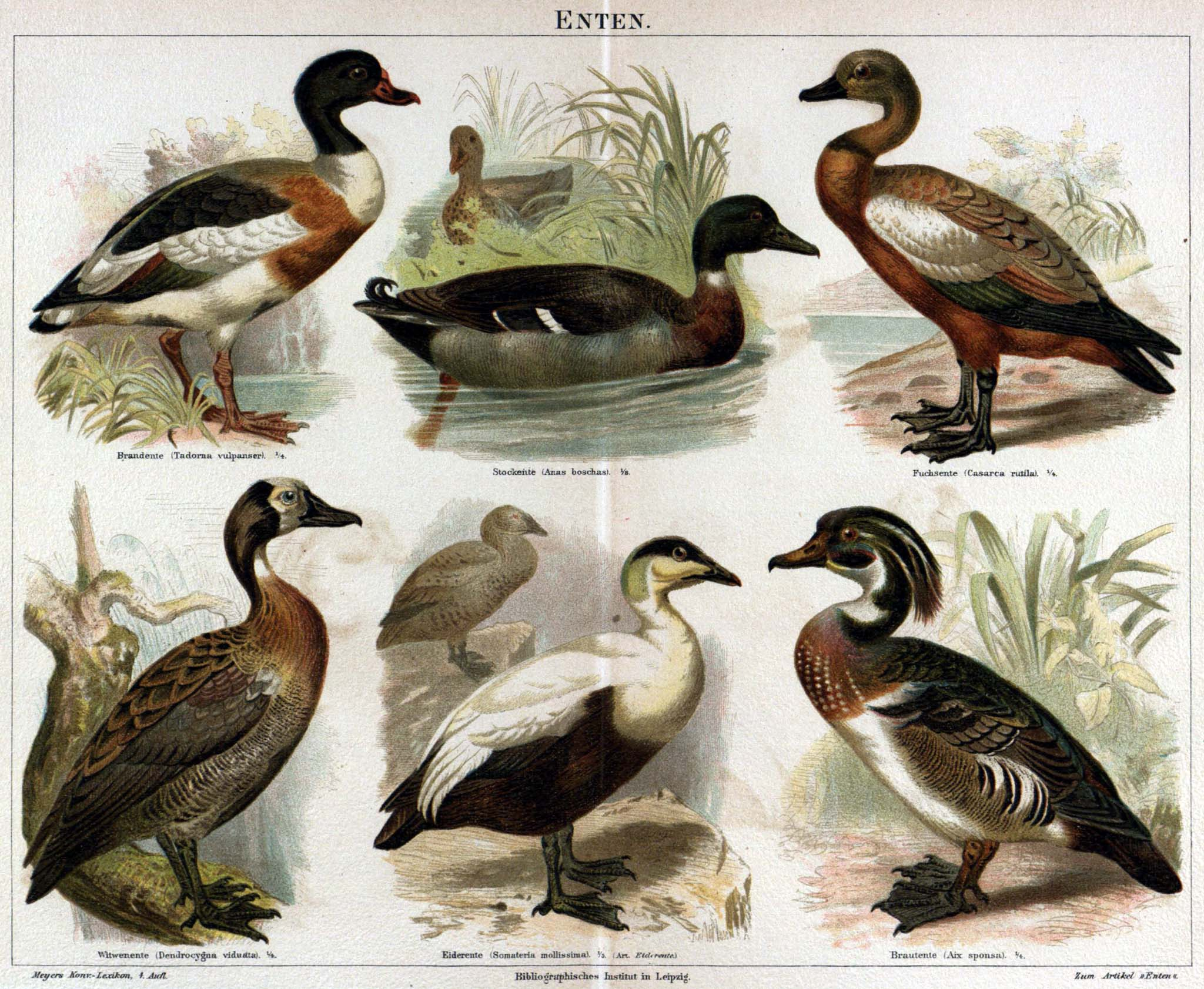 ducks.